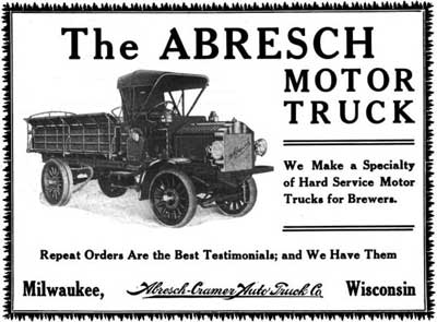 1911 Abresch-Cramer truck ad. Shown is Model C, with a payload of 3-4 tn. These trucks were assembled vehicles built by the Charles Abresch Co. of Milwaukee, Wisc. Coachwork was done in-house, as the Company was a Long time builder of Commercial horse drawn vehicles. Engine was a 40HP 4 cylinder unit. All trucks featured shaft drive to the countershaft, and chains to the rear wheels.